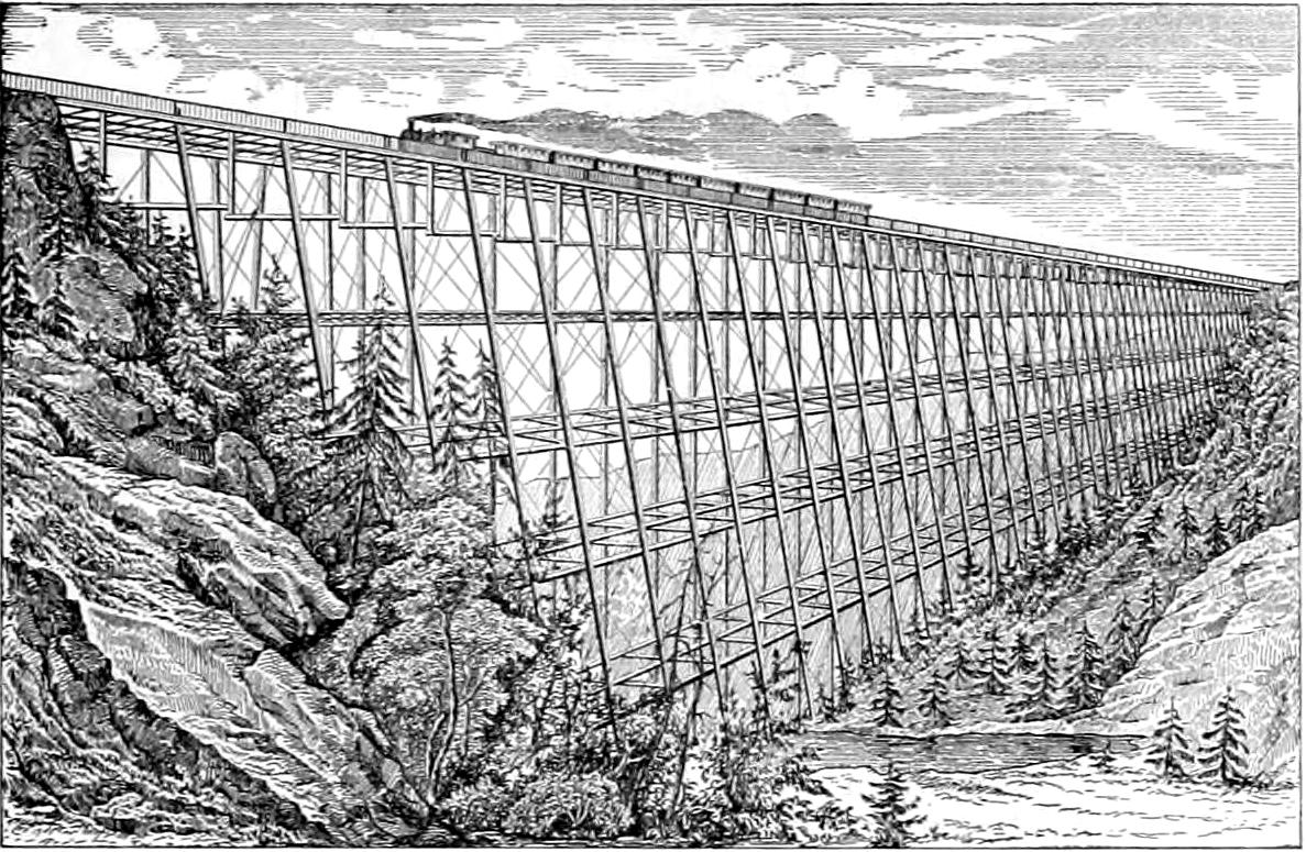 Lyman Viaduct, built over Dickinson Creek in Colchester, Connecticut, on the Boston and New York Airline Railroad, later the New York, New Haven and Hartford Railroad. The wrought iron trestle was built in 1873; the Dickinson Creek valley was filled in and the trestle was covered over in 1912-13.